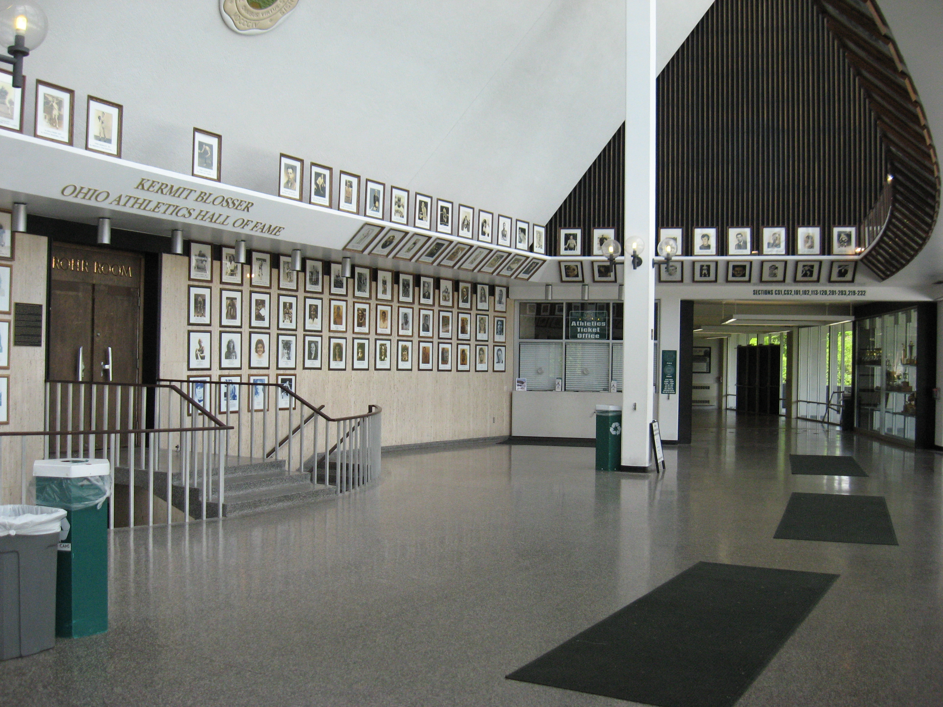 The Kermit Blosser Ohio Athletics Hall of Fame at Ohio University (Athens, Ohio, USA)